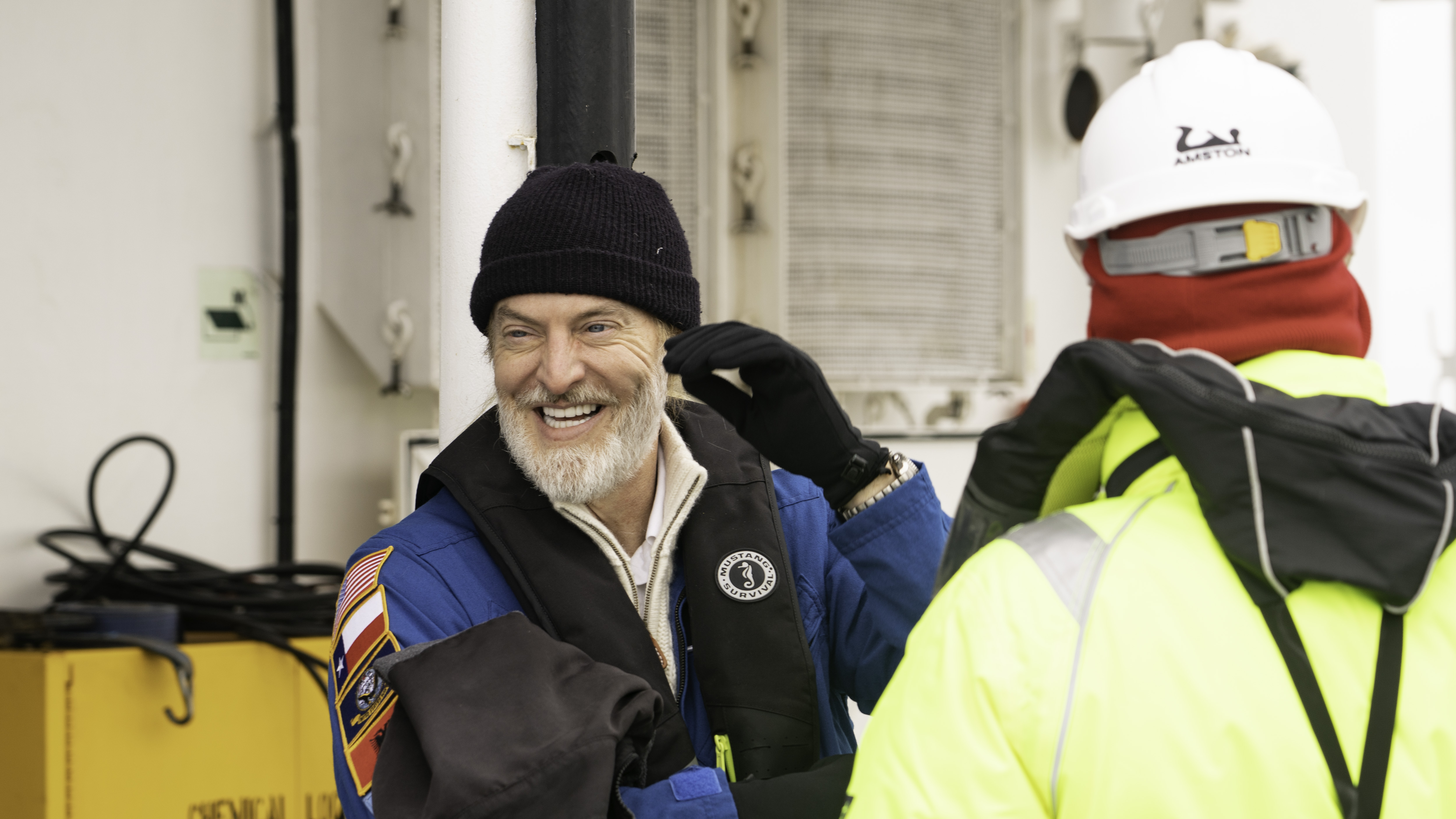 Victor Vescovo, submersible pilot and primary sponsor of the Five Deeps Expedition laughing as he prepares to dive his submersible, Limiting Factor, to the deepest part of the Southern Ocean.